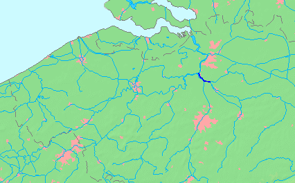 Location of a waterway (river/canal) in Belgium